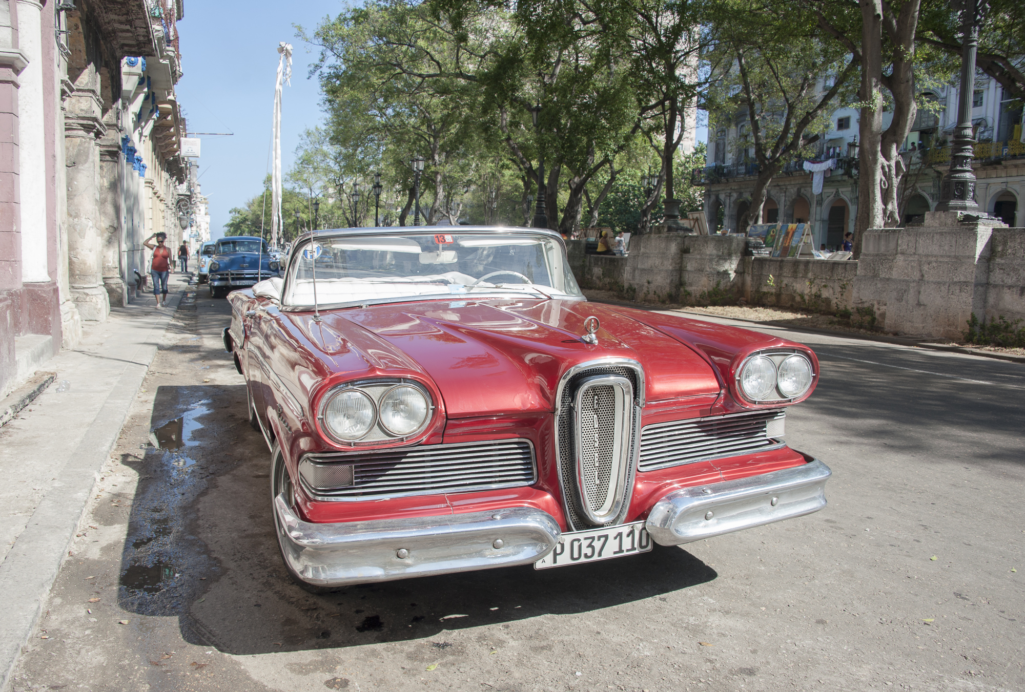 1958 Edsel Pacer in Havana, Jan 2014, image by Marjorie Kaufman